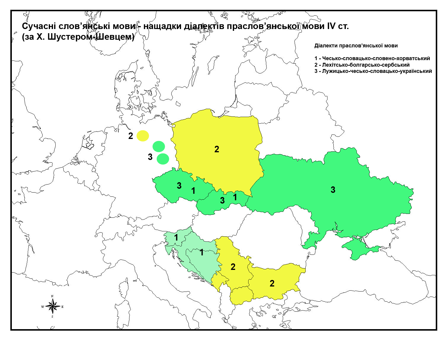 Modern Slavic Languages As Descendants of Protoslavic Dialects.